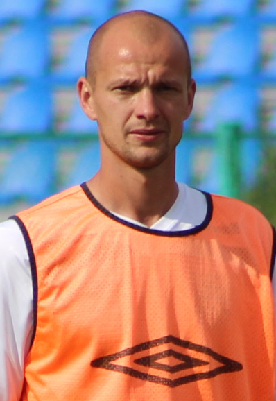 Evgen Ryabchenko